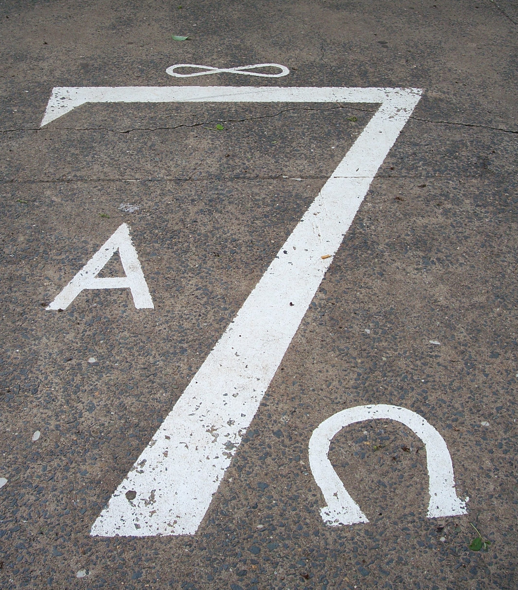 A sign of the Seven Society in front of "Maury Hall" (named in honor of Matthew Fontaine Maury) at the University of Virginia.